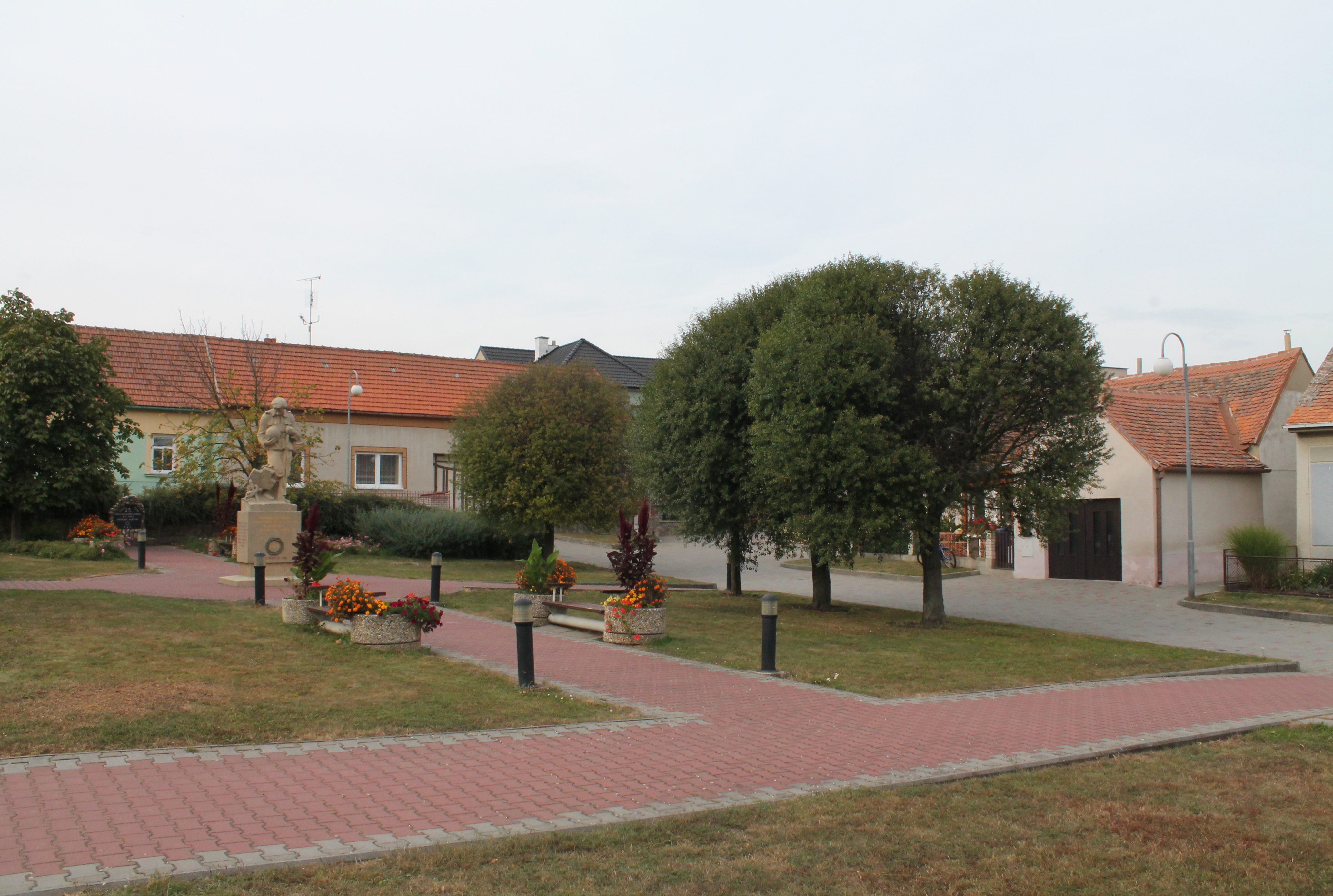 Únanov, Znojmo District, Czech Republic This photograph was taken during a group photography field trip by Brno Wikipedians: 2016-09-28.